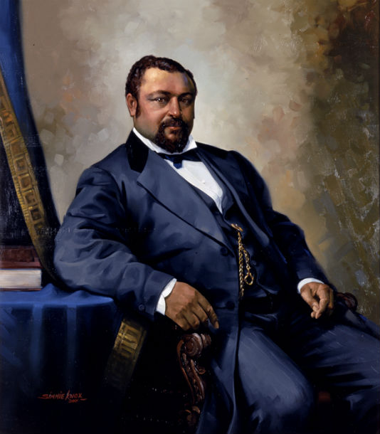 Portrait of Sen. Blanche Kelso Bruce by Simmie Knox, commissioned by the U.S. Senate. U.S. Senate Collection (cat.no. 32.00039.000)